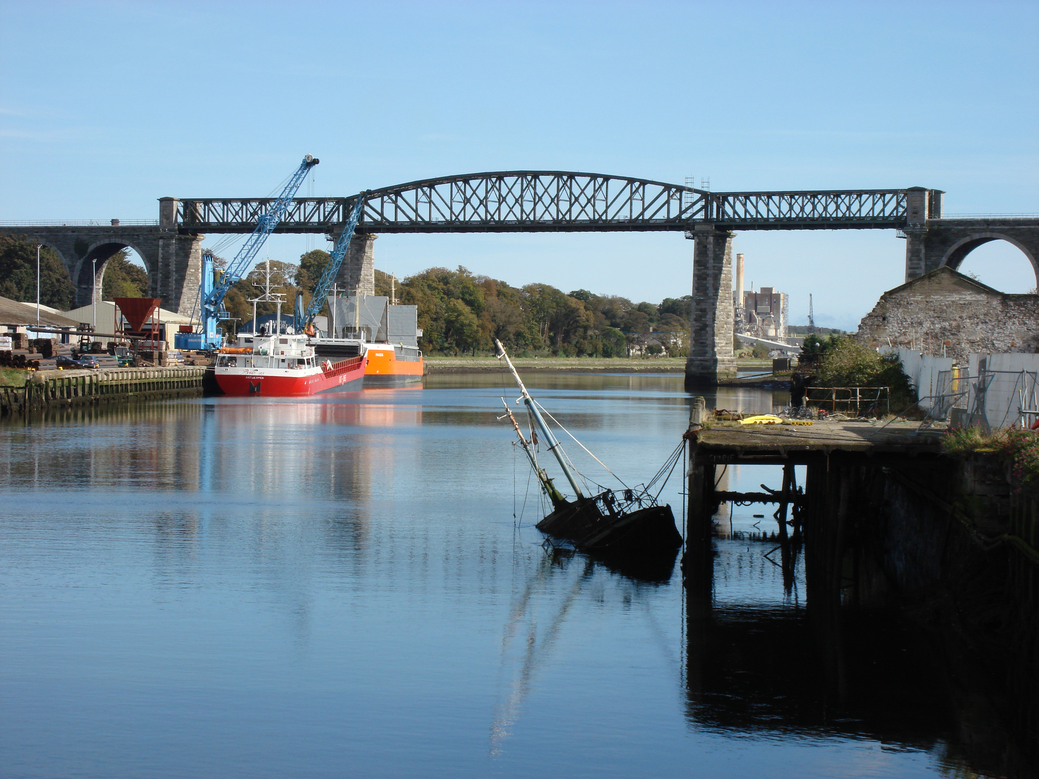 The Boyne Viaduct in Drogheda, Ireland